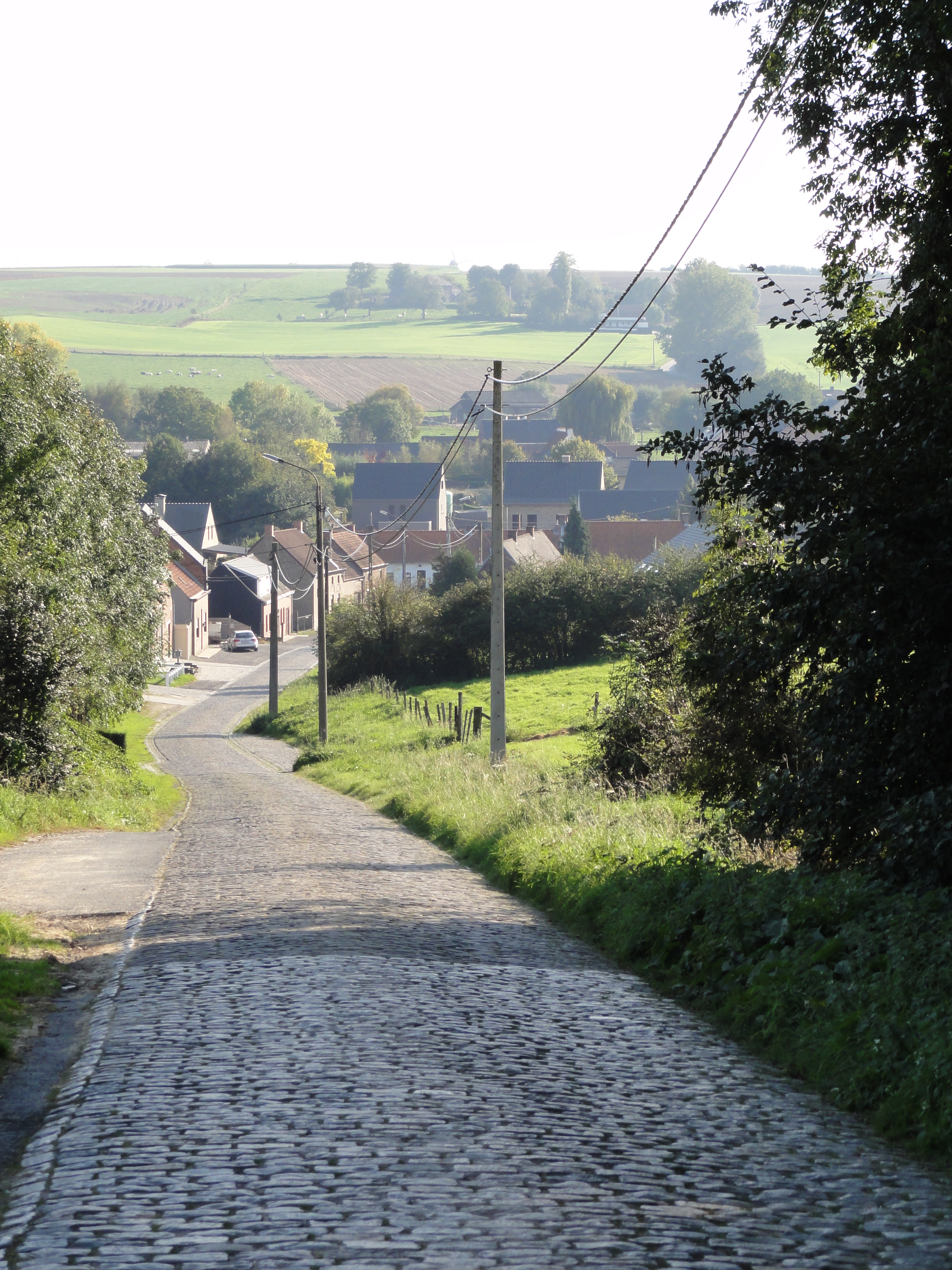 Eikenberg road and hill in Maarke. Maarke, Maarke-Kerkem, Maarkedal, East Flanders, Belgium